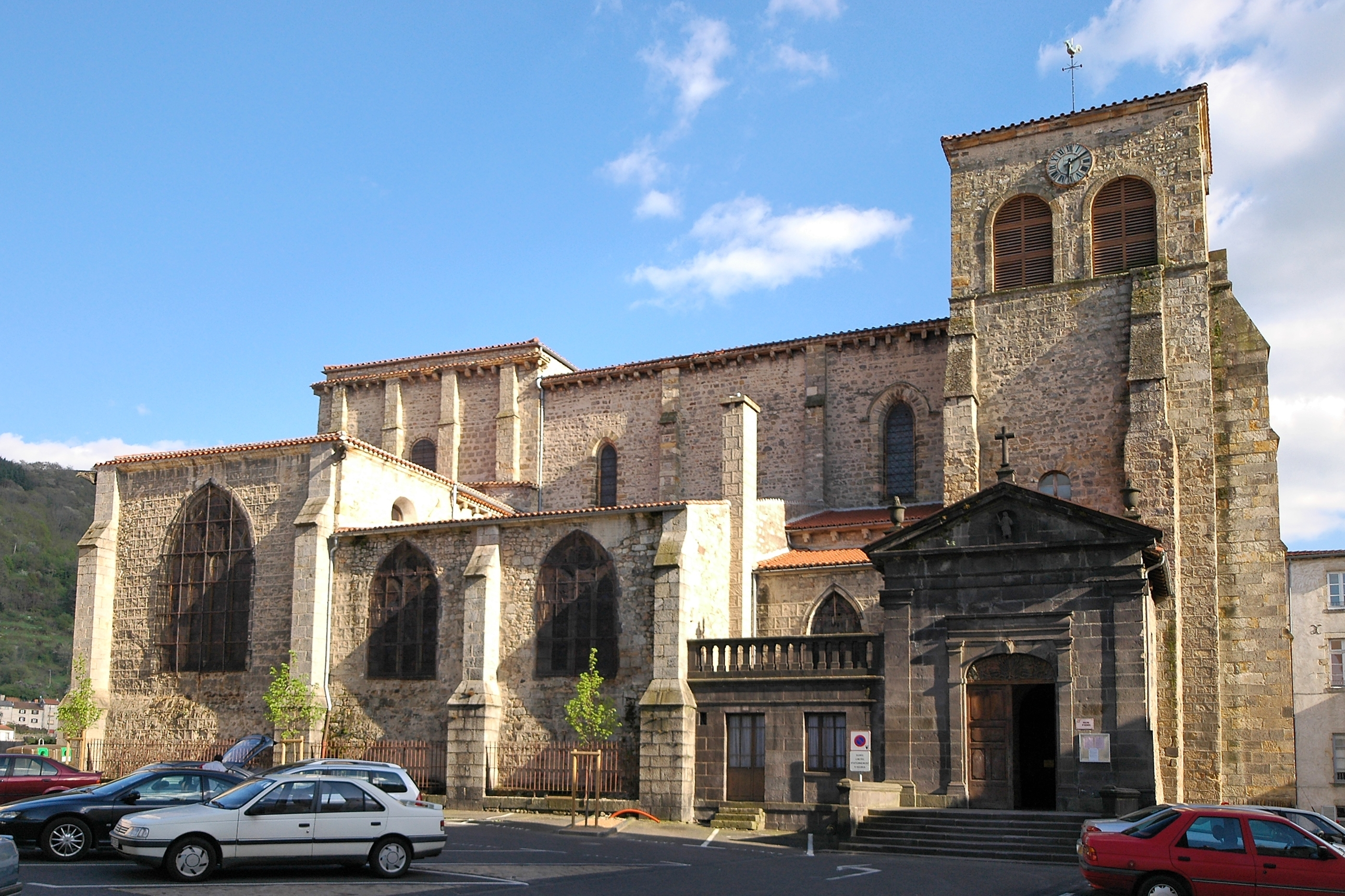 Saint-Genès church in Thiers (Auvergne, France), 12th century.